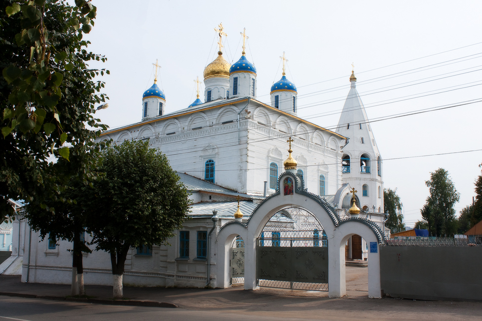 Cathedral of the Blessed Virgin Presentation, Cheboksary, Russia